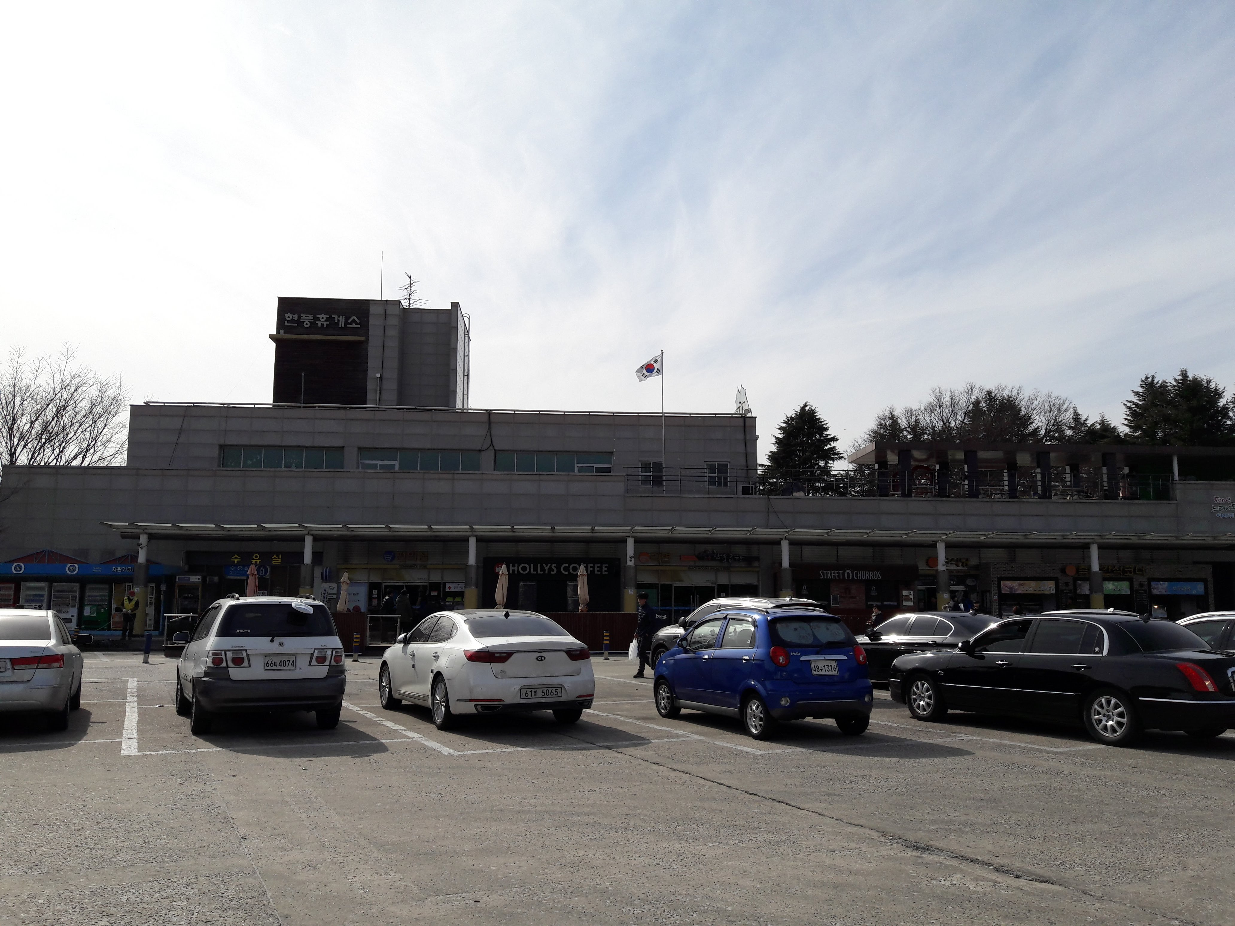 Hyeonpung Service Area